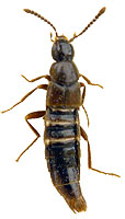 Aleochora spadicea